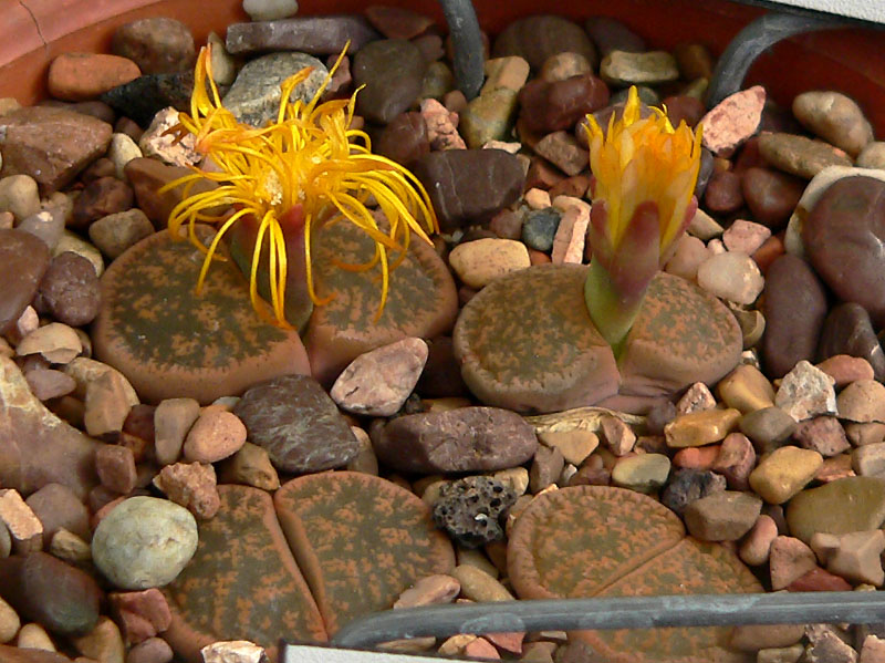 Lithops lesliei at the University of California Botanical Garden, Berkeley, California